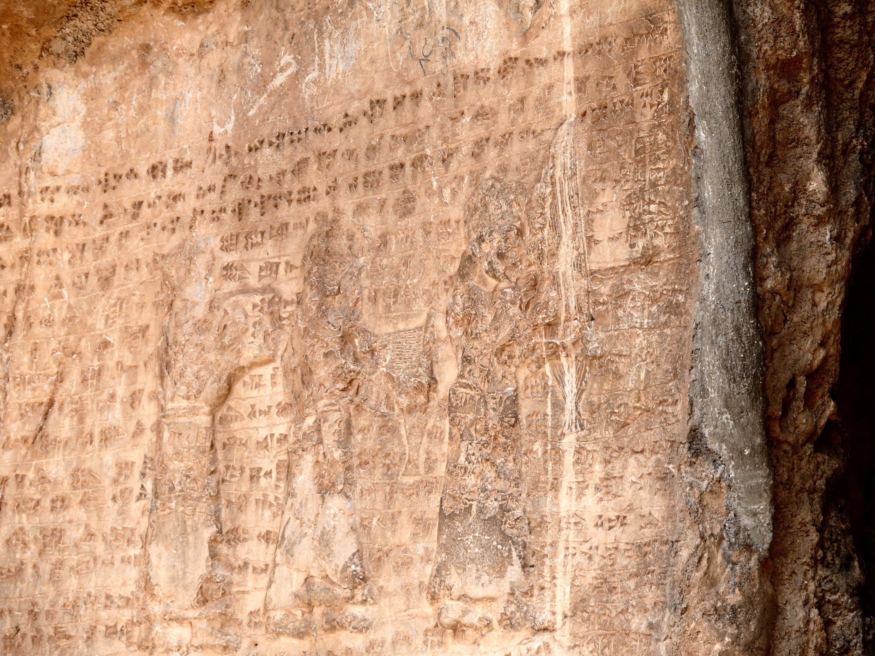 Detail of the up & right corner of the elamite rock relief said “Kul-e farah I” depicting a religious office with animal sacrifice with representation of Priest, king, and prayers. An Elamite inscription is visible covering almost all the relief. VIIIth to VIIth century BCE. Site of Kul-e Farah, city of Izeh, Khouzestan province, Iran